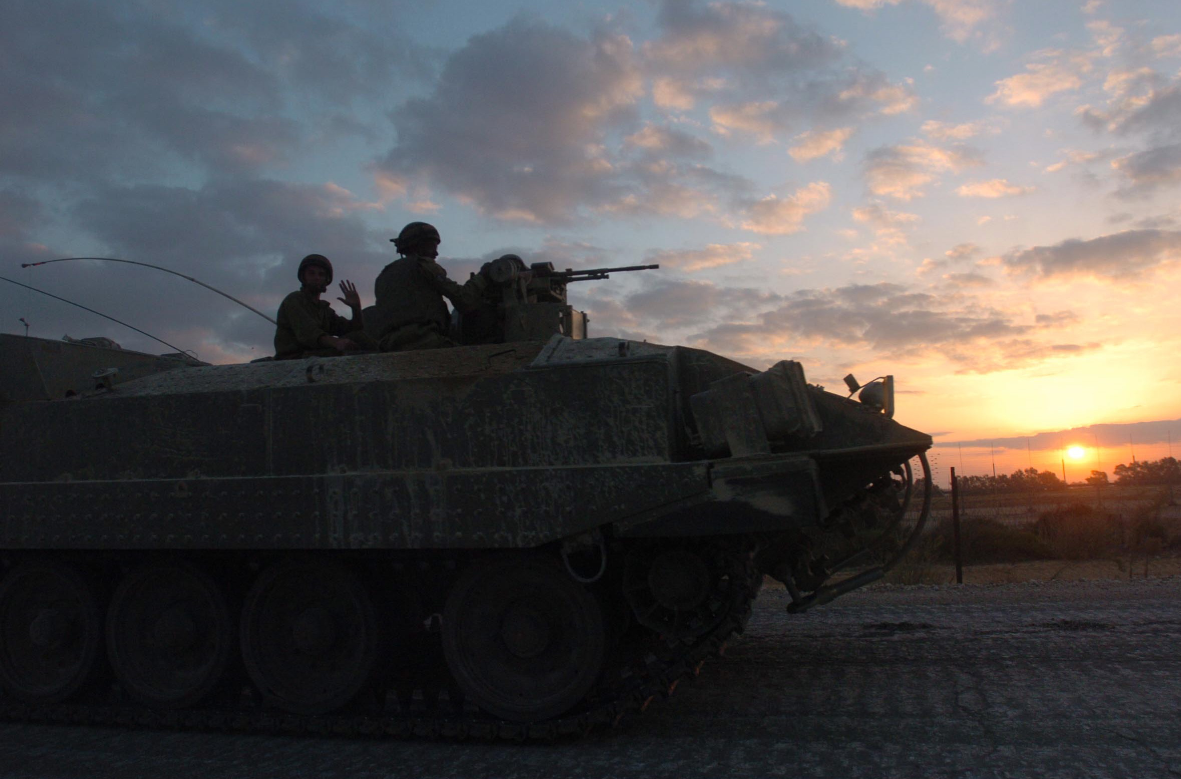 September 12, 2005. IDF forces exit the Gaza Strip as part of Operation Last Dawn, the final stage of the Gaza Disengagement, which occurred in the summer of 2005.